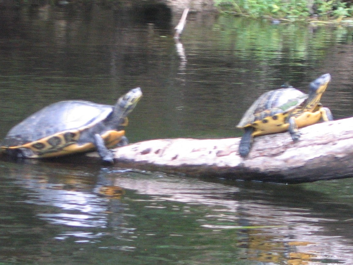 A Suwannee River Cooter.